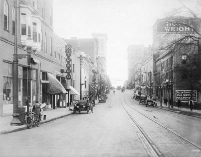 Martin Street business district in Raleigh, North Carolina. View looking east.